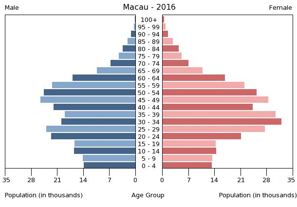 The population pyramid of Macau illustrates the age and sex structure of population and may provide insights about political and social stability, as well as economic development. The population is distributed along the horizontal axis, with males shown on the left and females on the right. The male and female populations are broken down into 5-year age groups represented as horizontal bars along the vertical axis, with the youngest age groups at the bottom and the oldest at the top. The shape of the population pyramid gradually evolves over time based on fertility, mortality, and international migration trends.